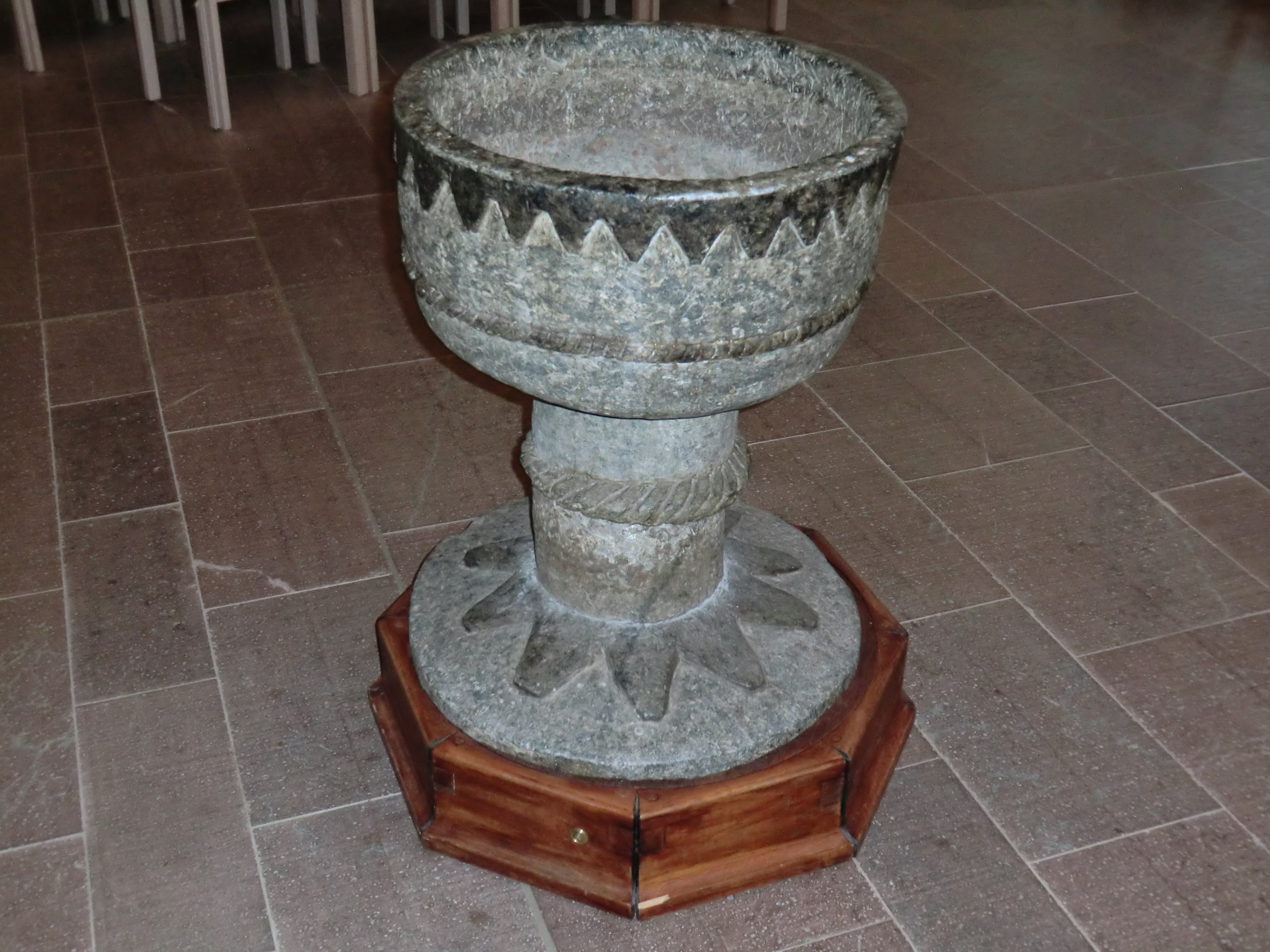 Baptismal font of Fryksände church in Torsby, Värmland, Sweden.